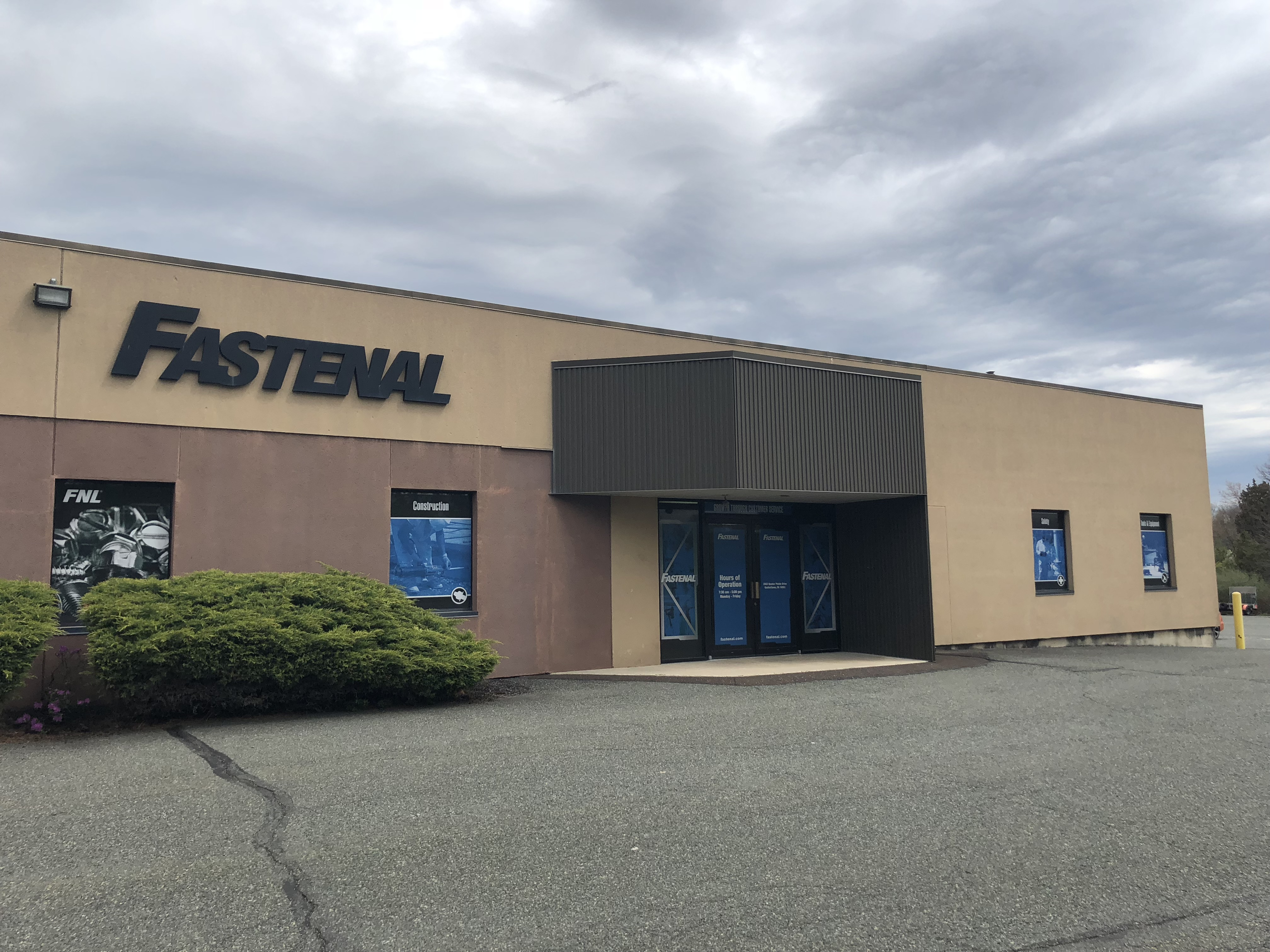 Award winning location in beautiful Quakertown, Pennsylvania.